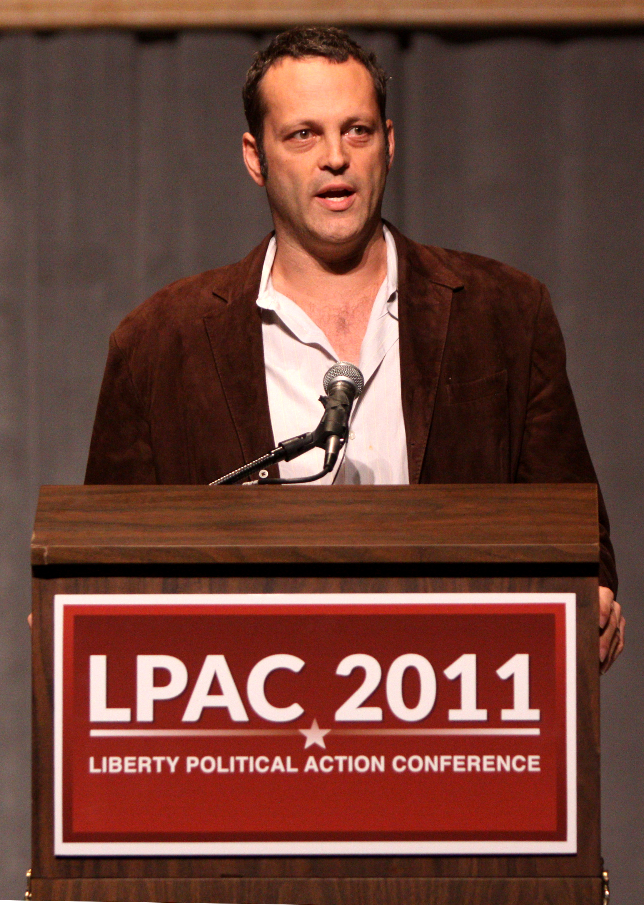 Vince Vaughn at a political conference in Reno, Nevada, endorsing Ron Paul.